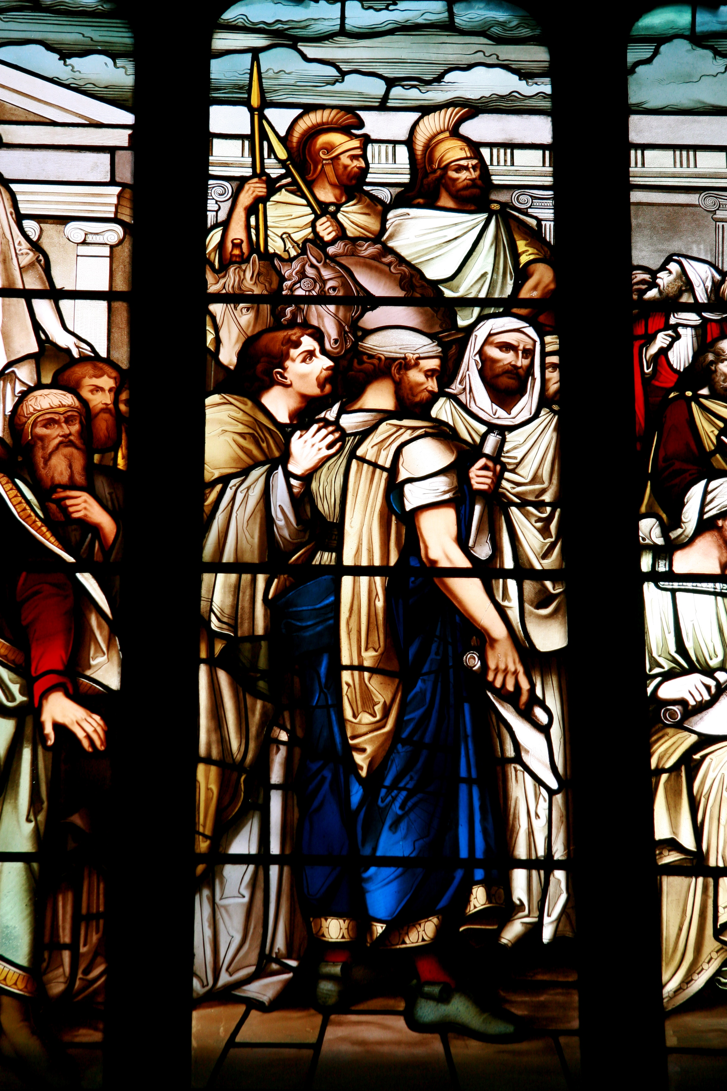 Window in St. Giles' Cathedral, Edinburgh